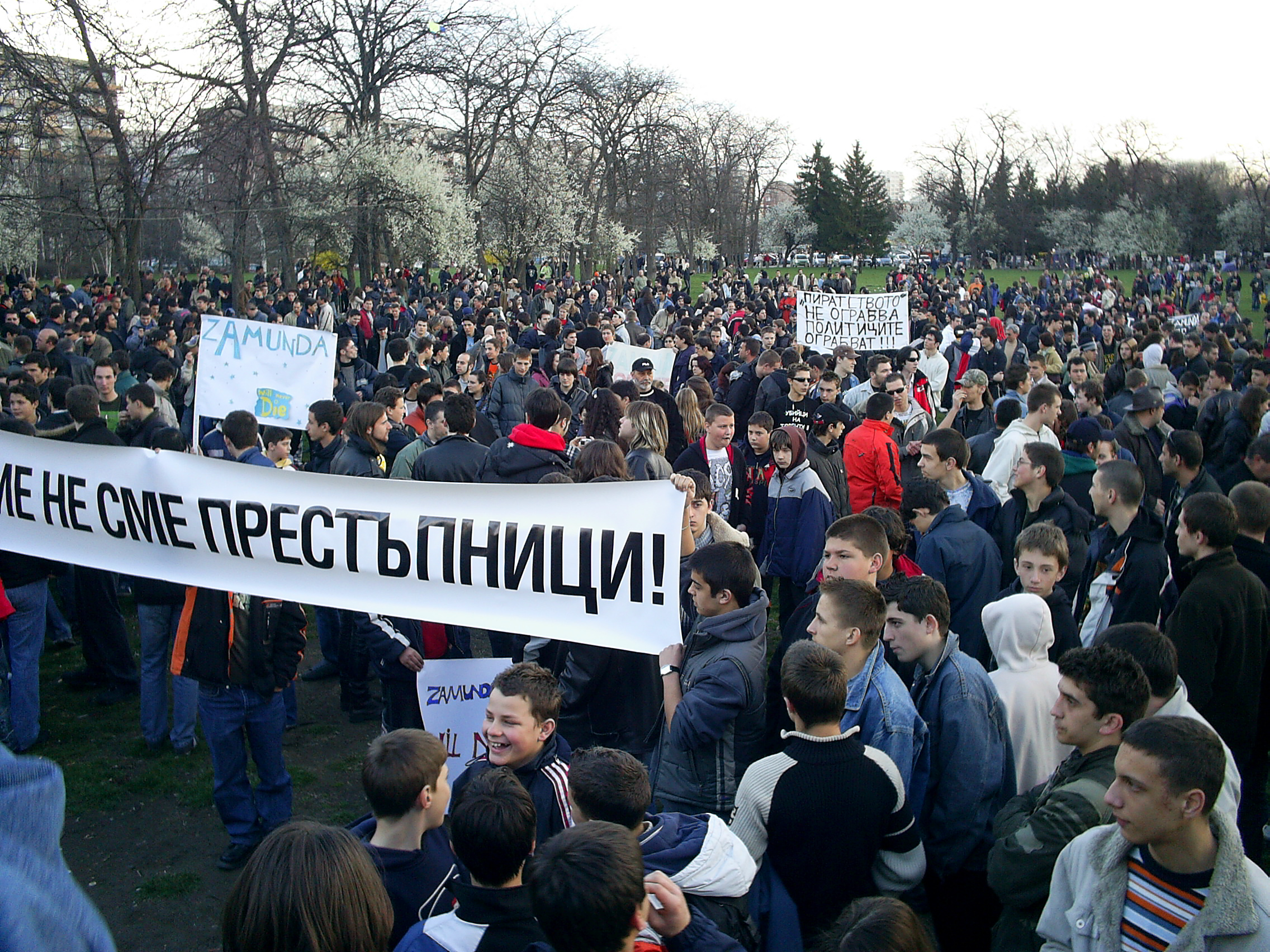 A street meeting in Sofia, Bulgaria in support of Internet freedoms and torrent trackers